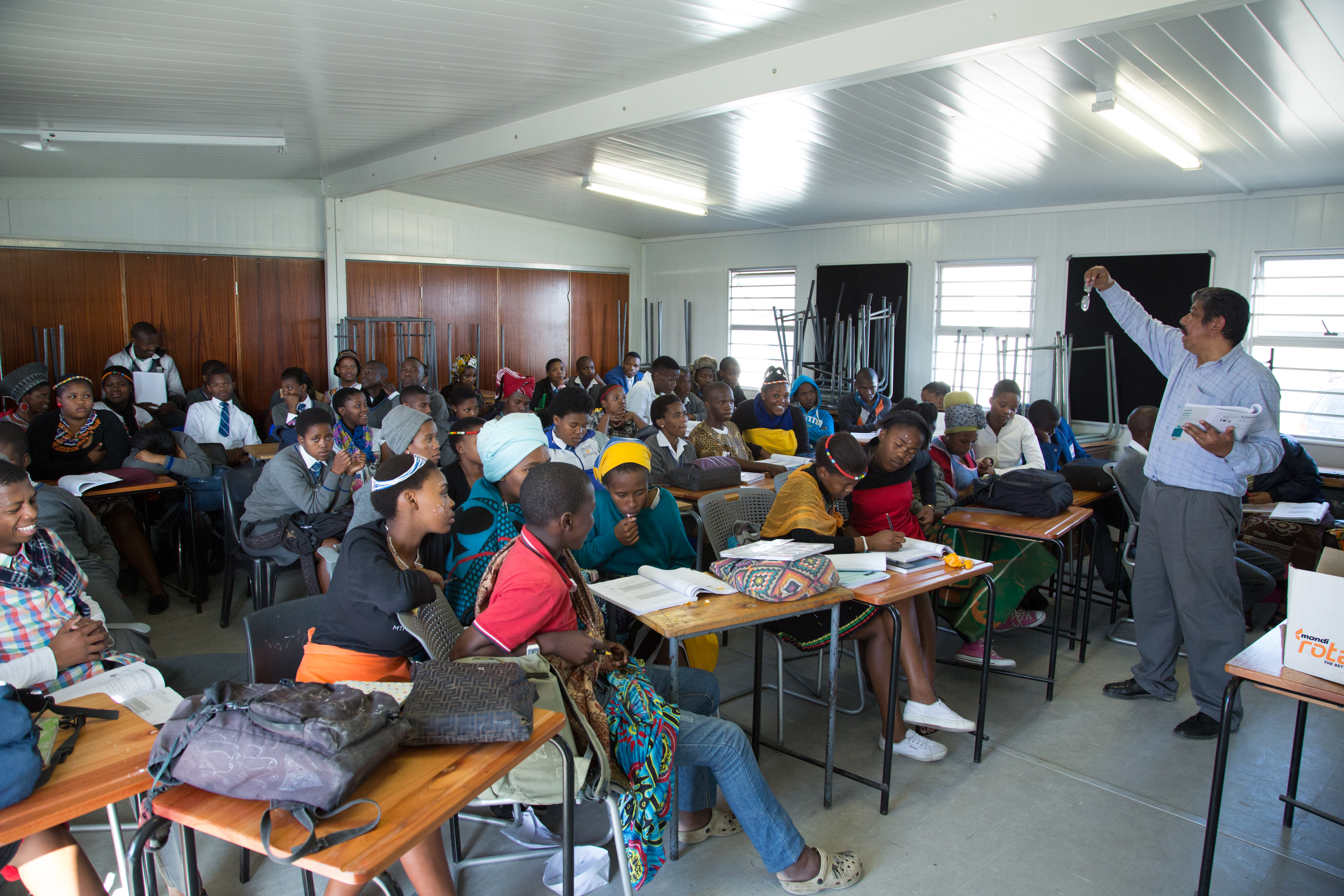 Class in Sinenjongo High School, Joe Slovo Park, Cape Town, South Africa